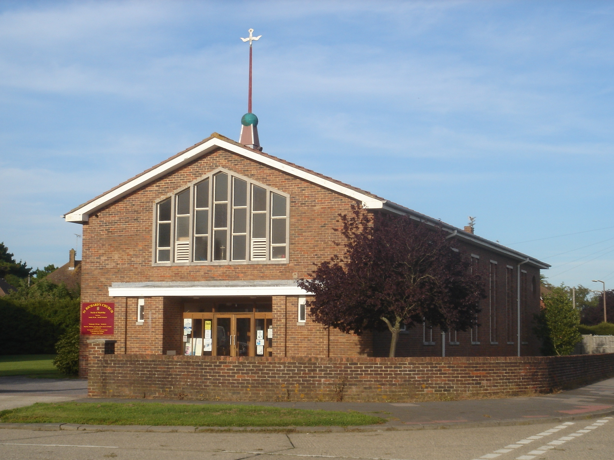 St Richard's parish church, Collingwood Road, Maybridge, Worthing, West Sussex, seen from the west